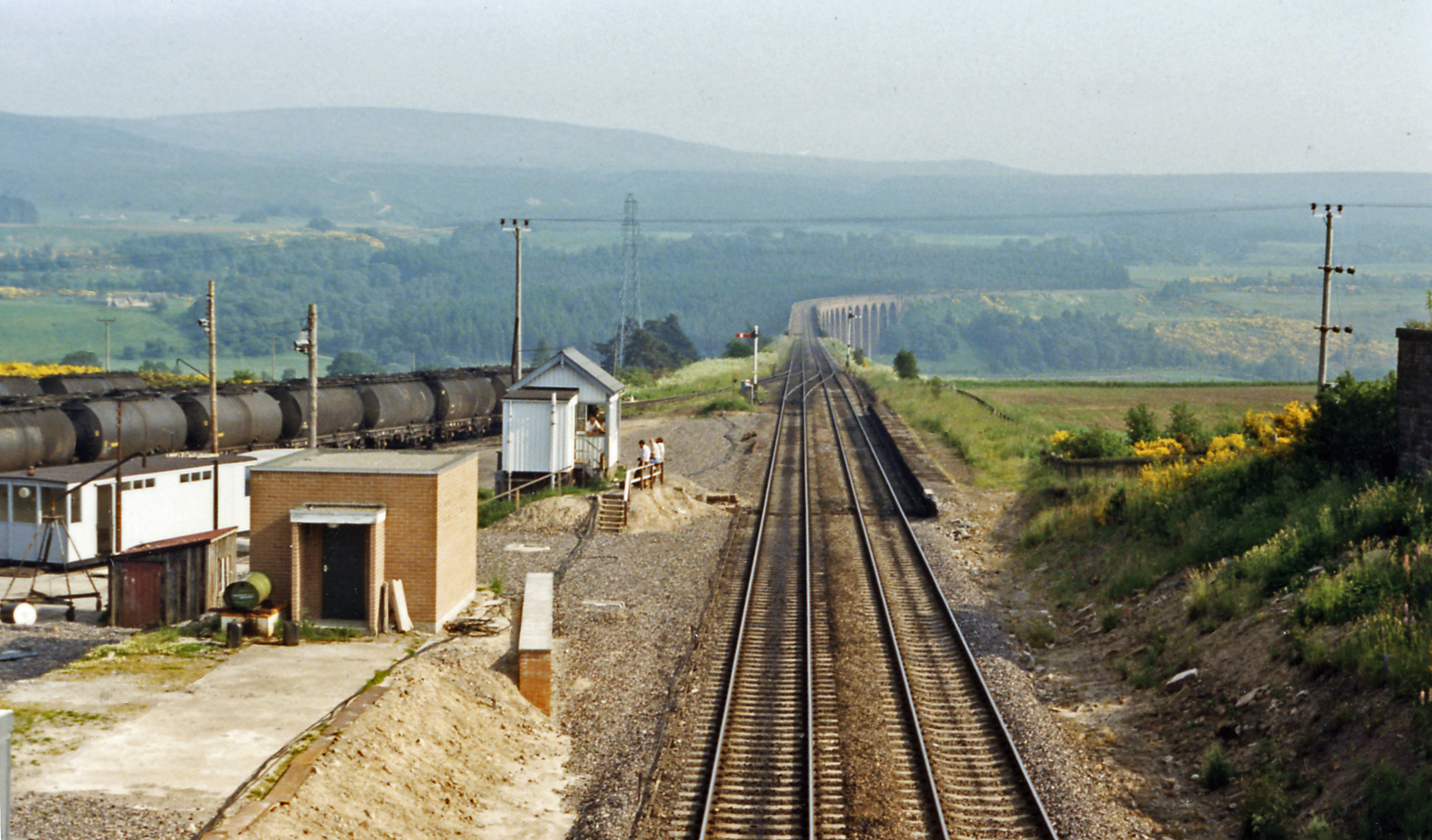 Culloden Moor station (remains) and Viaduct. View southwards, towards Aviemore, Perth and the south: ex-Highland Perth - Inverness main line. The station was closed from 3/5/65, but the line remains very much alive.